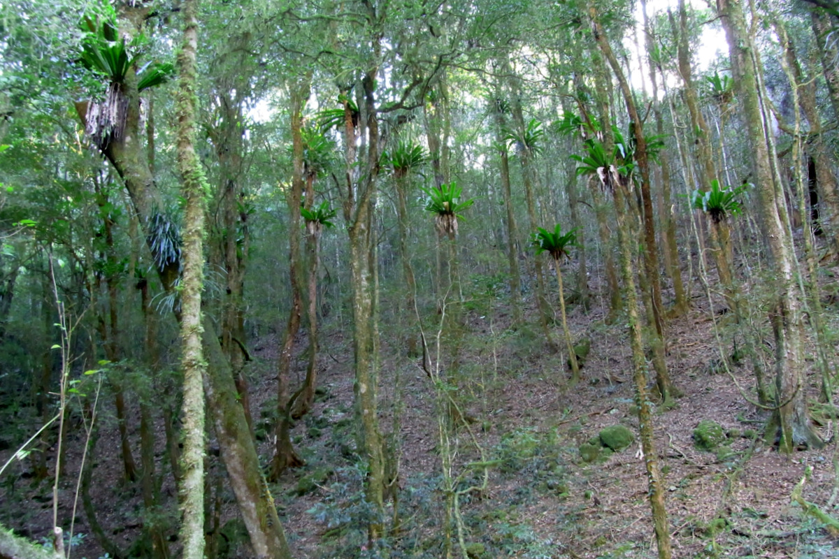 Shatterwood & Birds Nest Ferns rainforest at Copeland Tops, NSW Australia